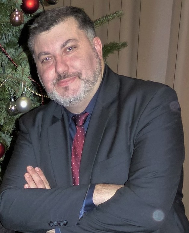 Artur Dziambor - Polish politician, teacher and entrepreneur, member of the Sejm of the 9th term, vice president of the KORWiN party. Kielce, December 14, 2019 - Confederate presidential primaries.